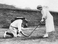 George Low, Sr. (1874-1950) giving a golf lesson to a woman, circa 1912.